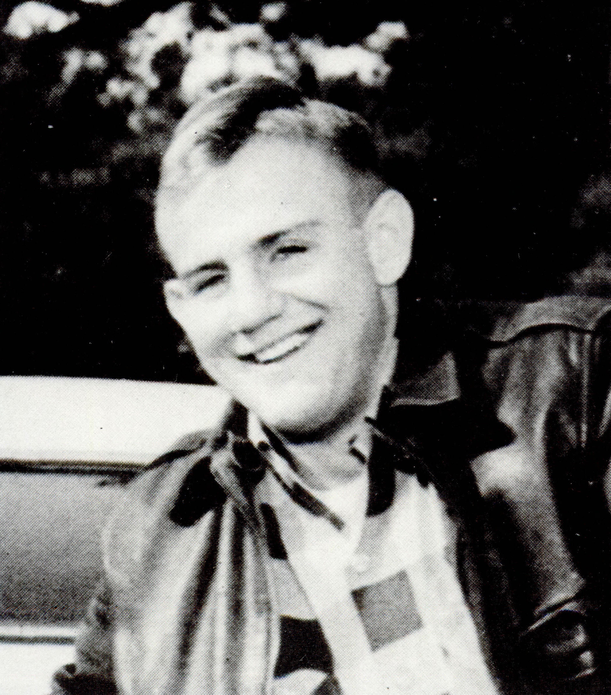 Fob James, former Governor of Alabama, while a student at Auburn in 1956